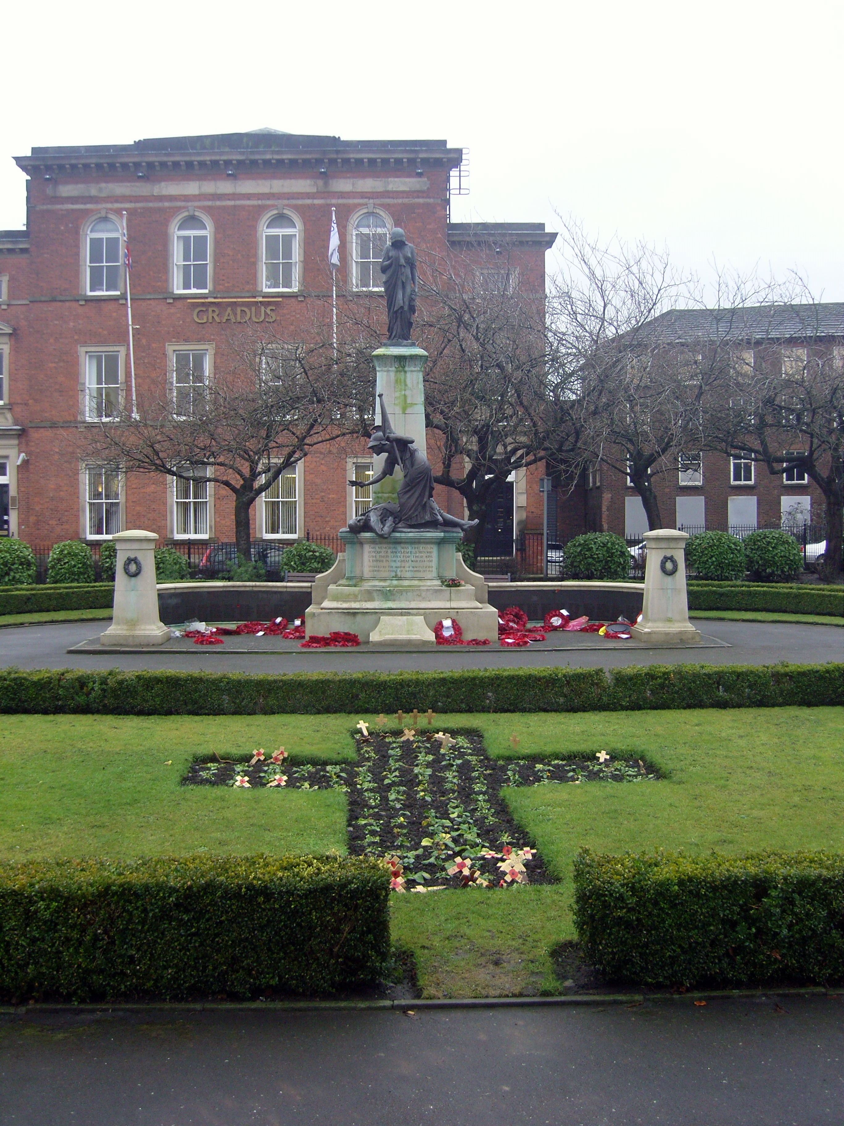 Photo ref; SNC14672